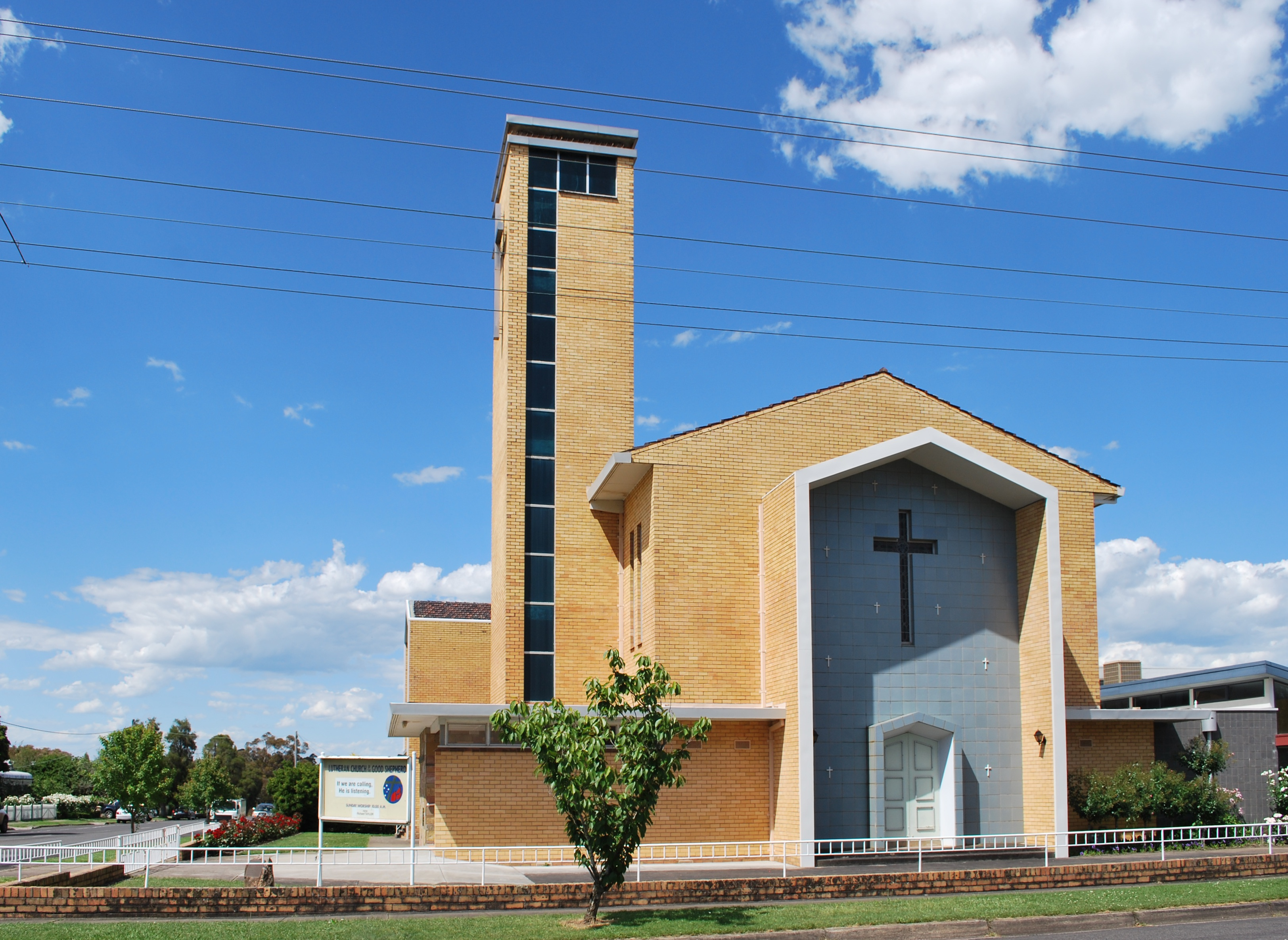 Church of the Good Shepherd Lutheran church at Hamilton, Victoria